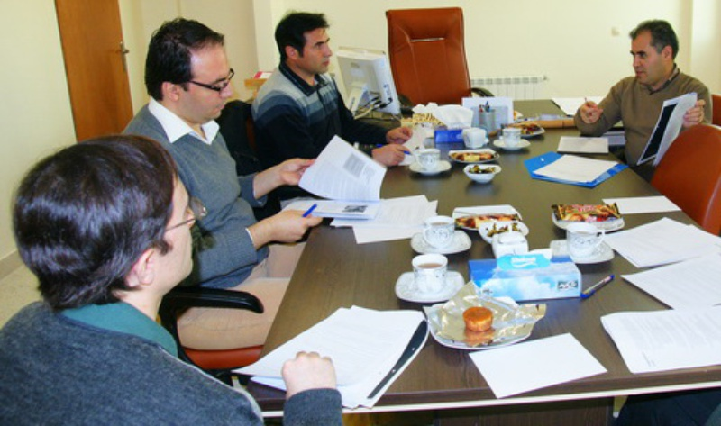 Ardabil University of Medical Sciences